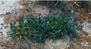 According to IUCN/SSC specialists this is one of the most endangered species of island floras in the Mediterranean area.